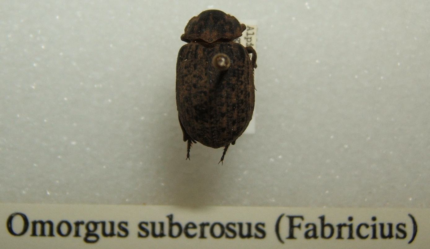 Omorgus suberosus adult taken by Shawn Hanrahan at the Texas A&M University Insect Collection in College Station, Texas.